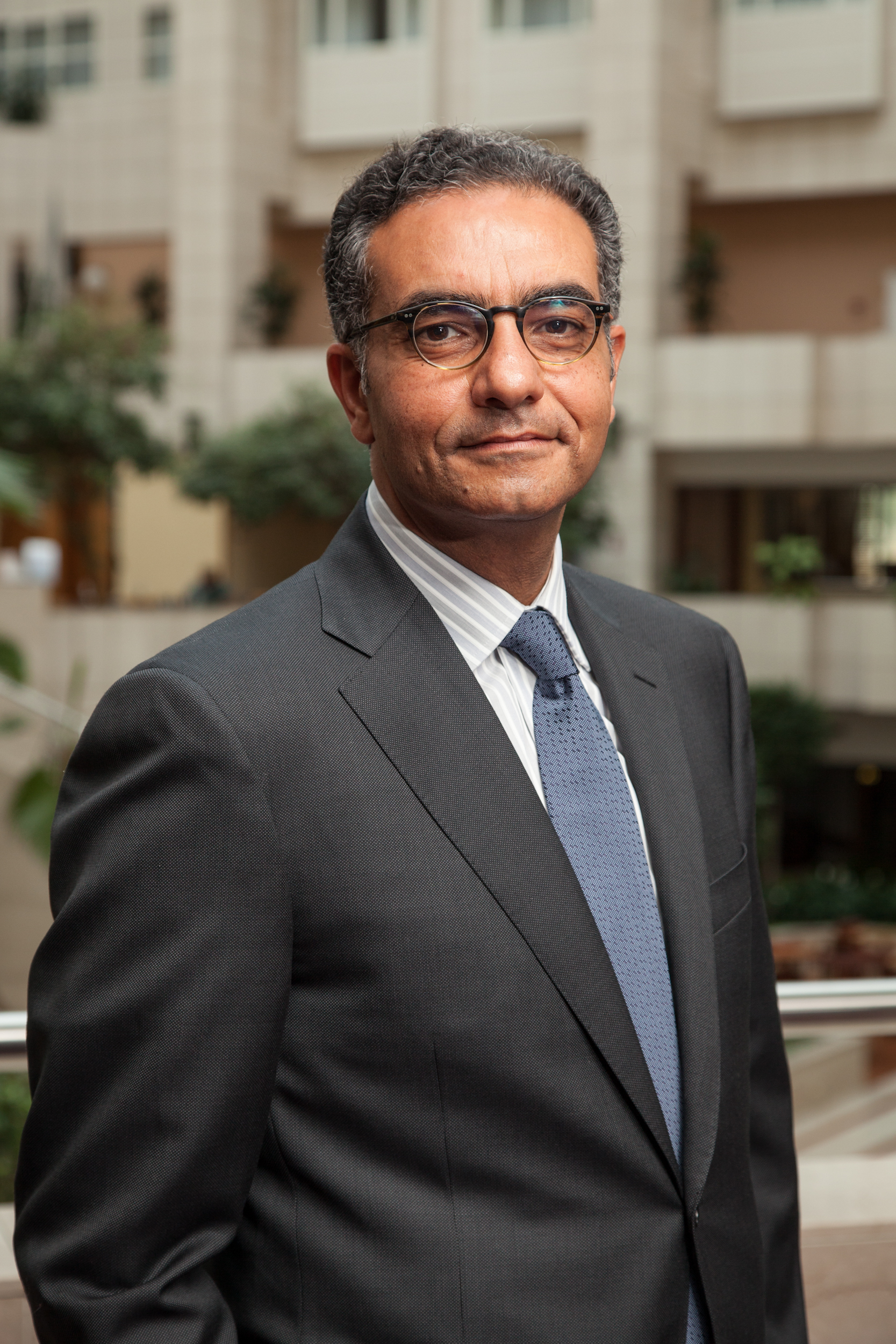 Chief Executive Officer of ICANN Fadi Chehadé.